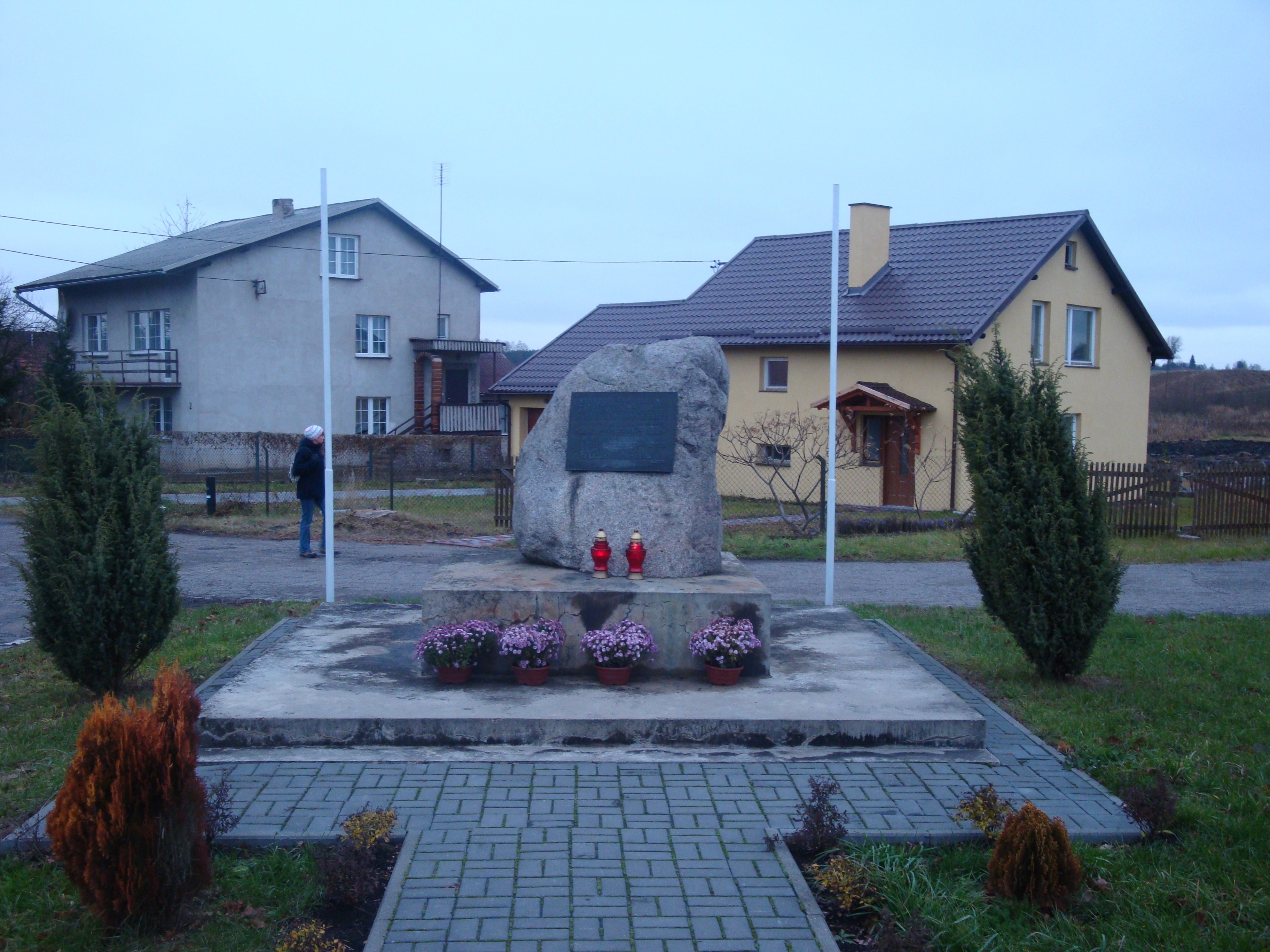 Monument to victims of german nazis in Bobowo, Poland